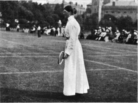 Rurth Durlacher, Irish tennis player, Wimbledon doubles champion 1899, Irish mixed champion 1898, 1901, 1902